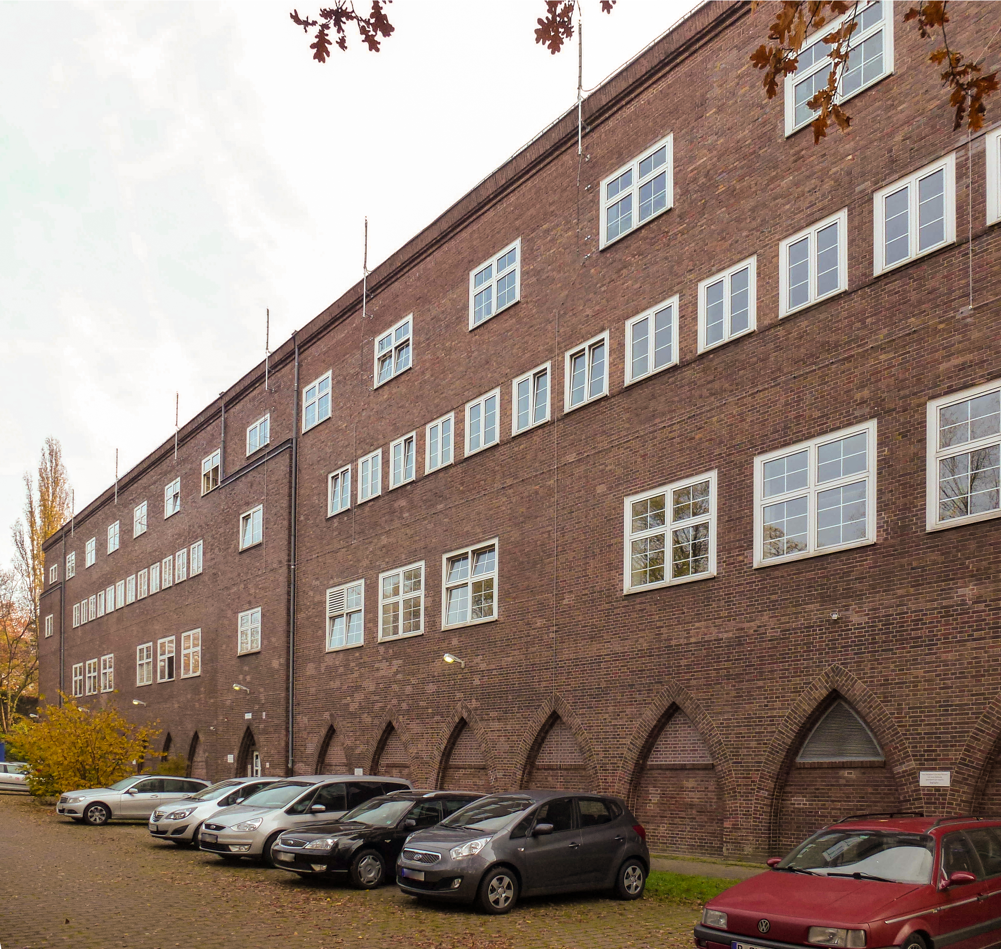 Berlin-Halensee Schaltwerk Halenseestraße